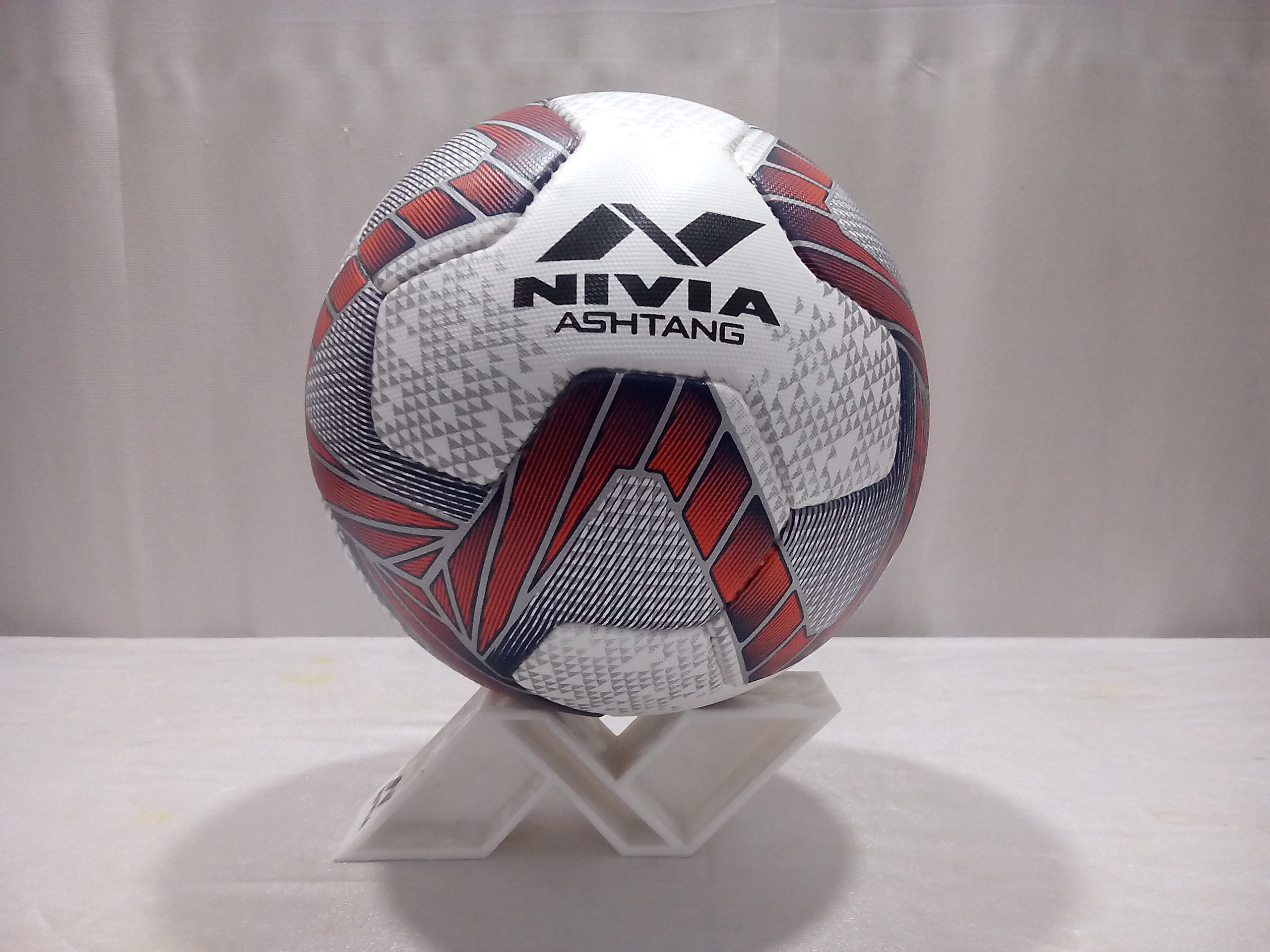 Nivia Astang - Official Football, FIFA Pro Certified